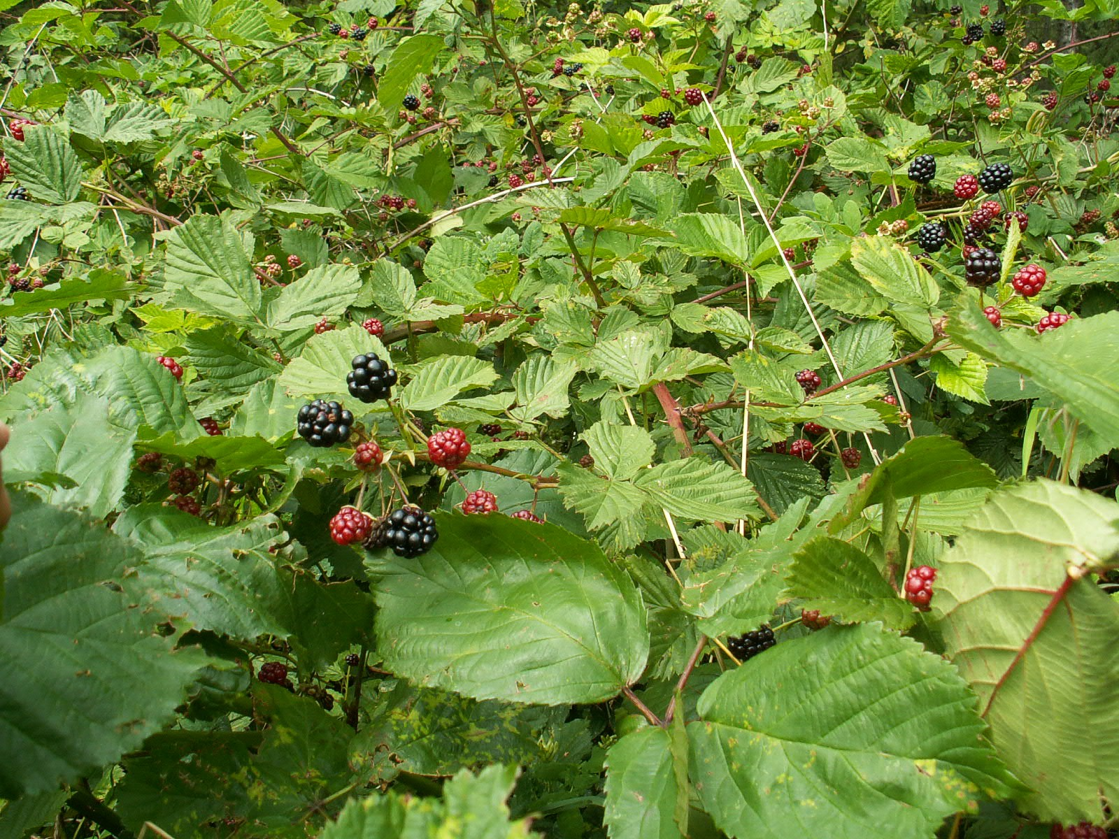 Rubus plicatus. Goleniow, NW Poland